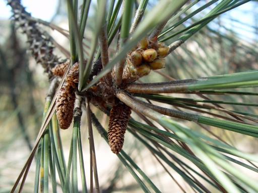 Old and new male (pollen) strobili on a Torrey Pine branch in Los Penasquitos Lagoon, along Marsh Trail